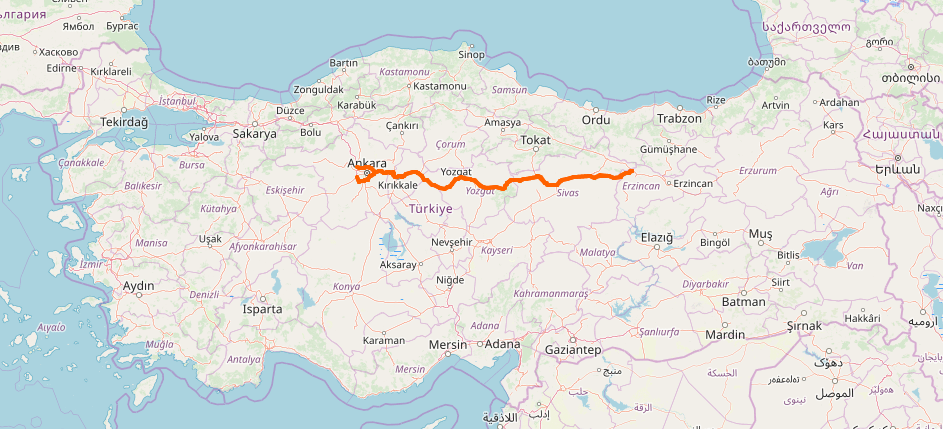 European route E88 route